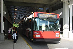 Shuttle bus at BWI station in June 2007